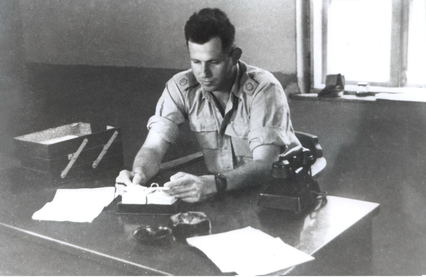 Asaf Simchoni as Commander of 1st Batalion, Yiftach Brigade, 1948.